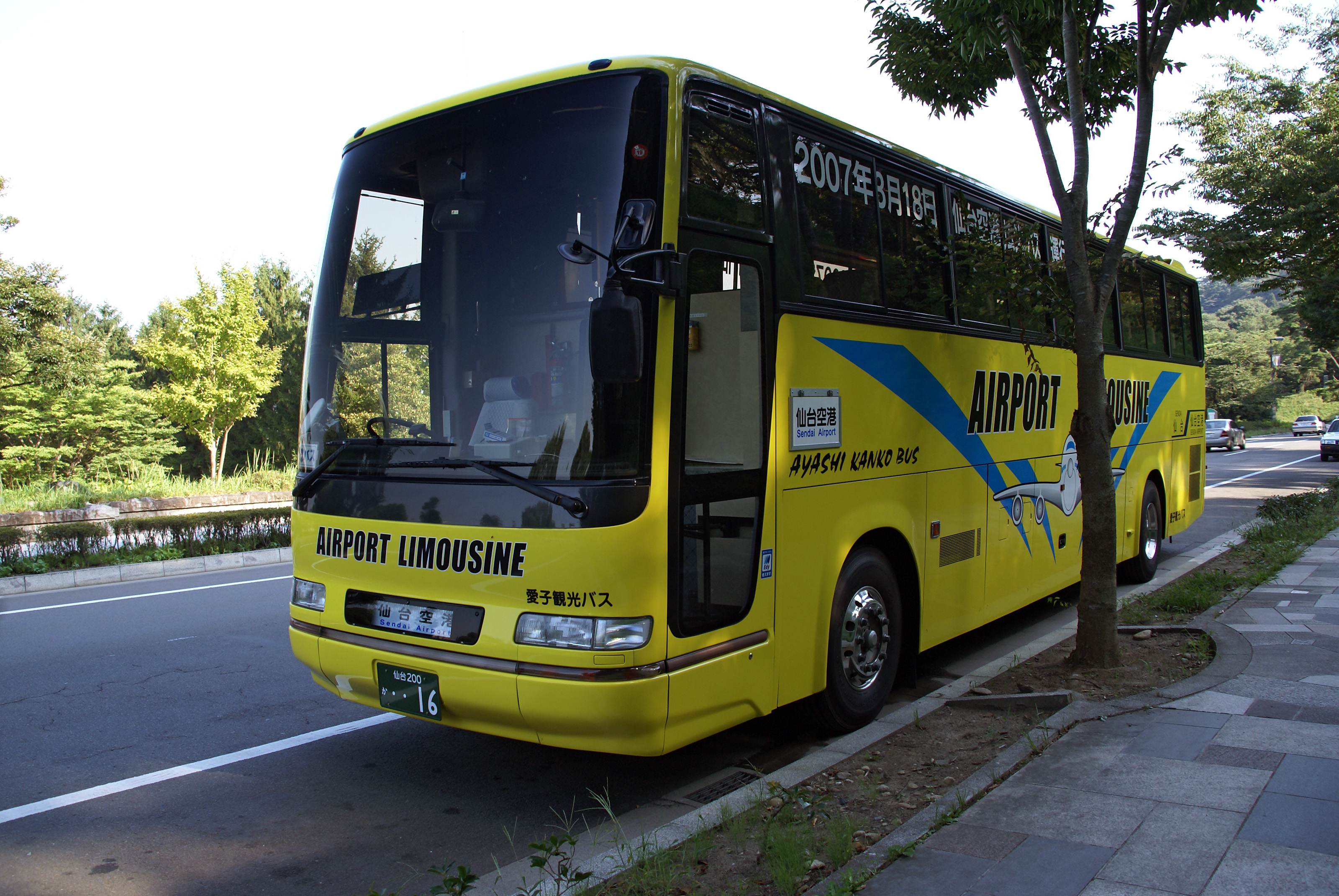 Ayashi sightseeing bus